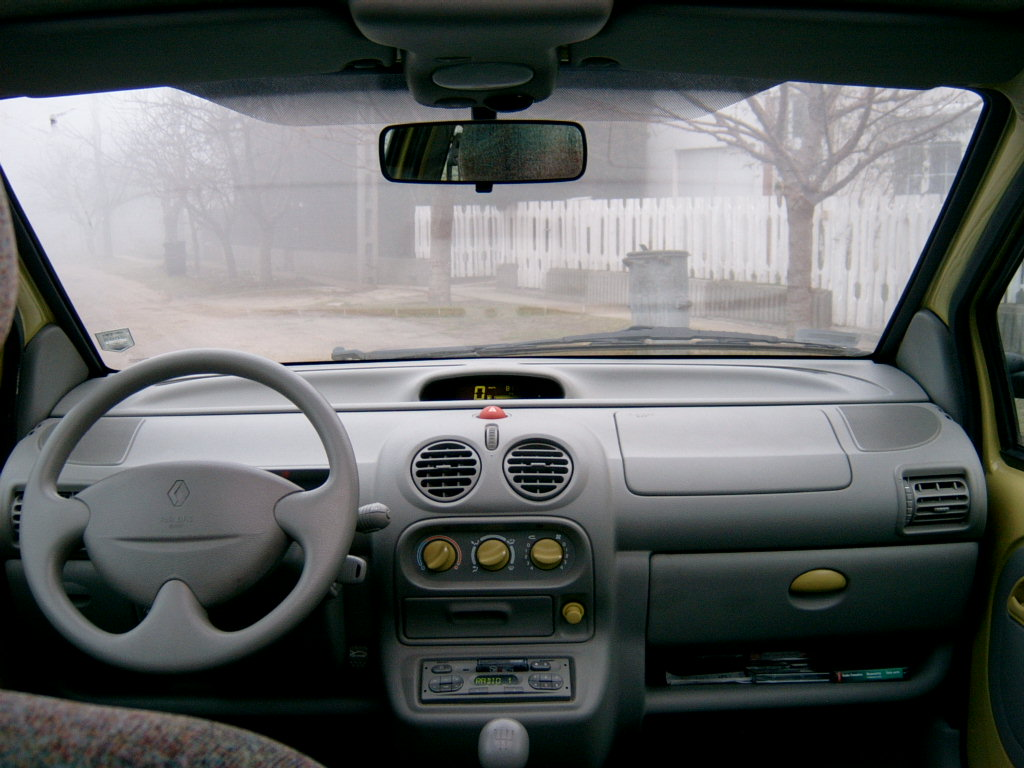 1999 Renault Twingo, interior. (I took this picture myself.) euro?